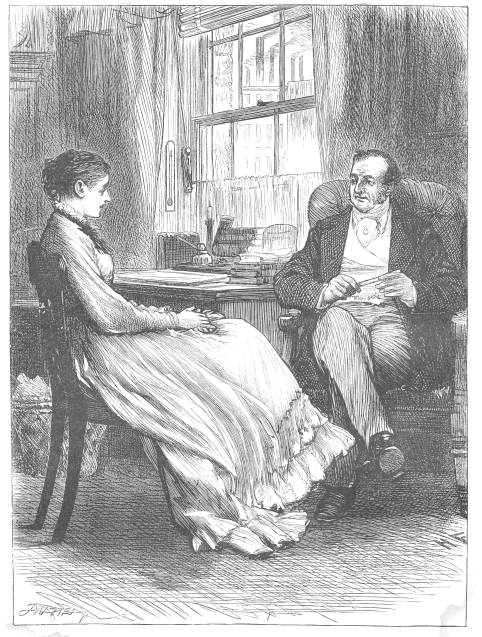 Hard Times, "Louisa, My Dear, You Are the Subject Of A Proposal of Marriage That Has Been Made To Me." Harry French